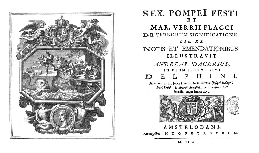 Sex. Pompei Festi et Mar. Verii Flacci de verborum significatione libri XX Published: 1700